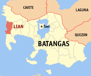 Map of Batangas showing the location of Lian